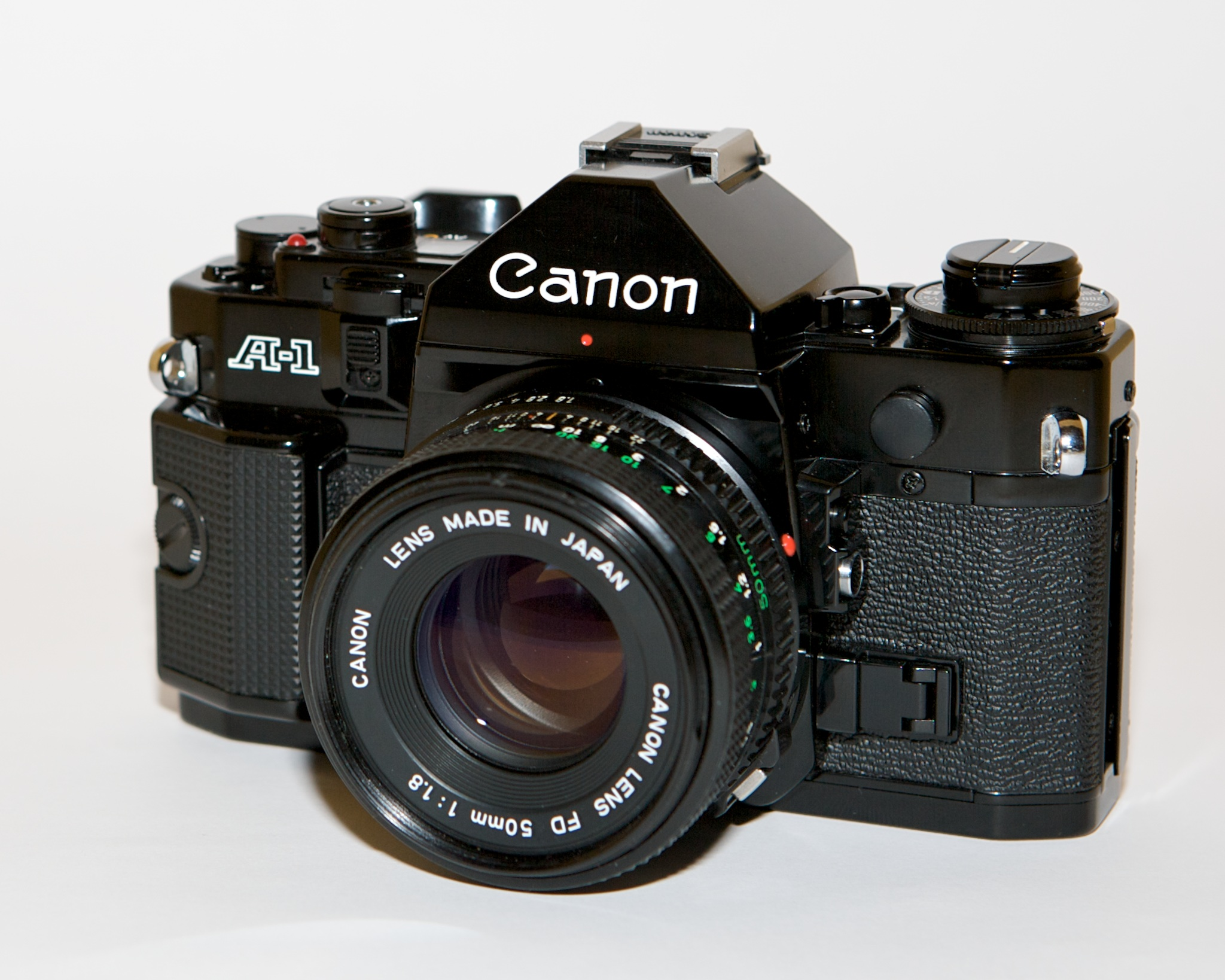 Canon A-1 with FD 50mm f1.8.